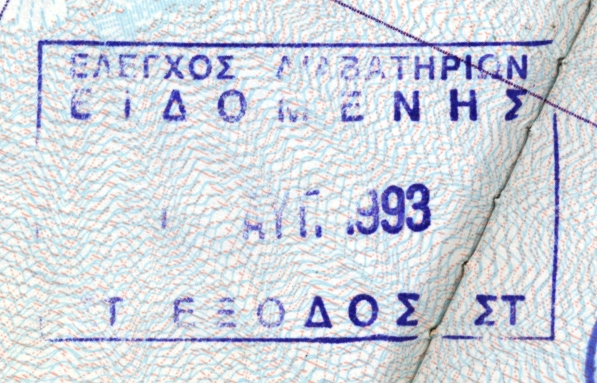 Pre-Schengen passport stamp from Idomeni, Greece